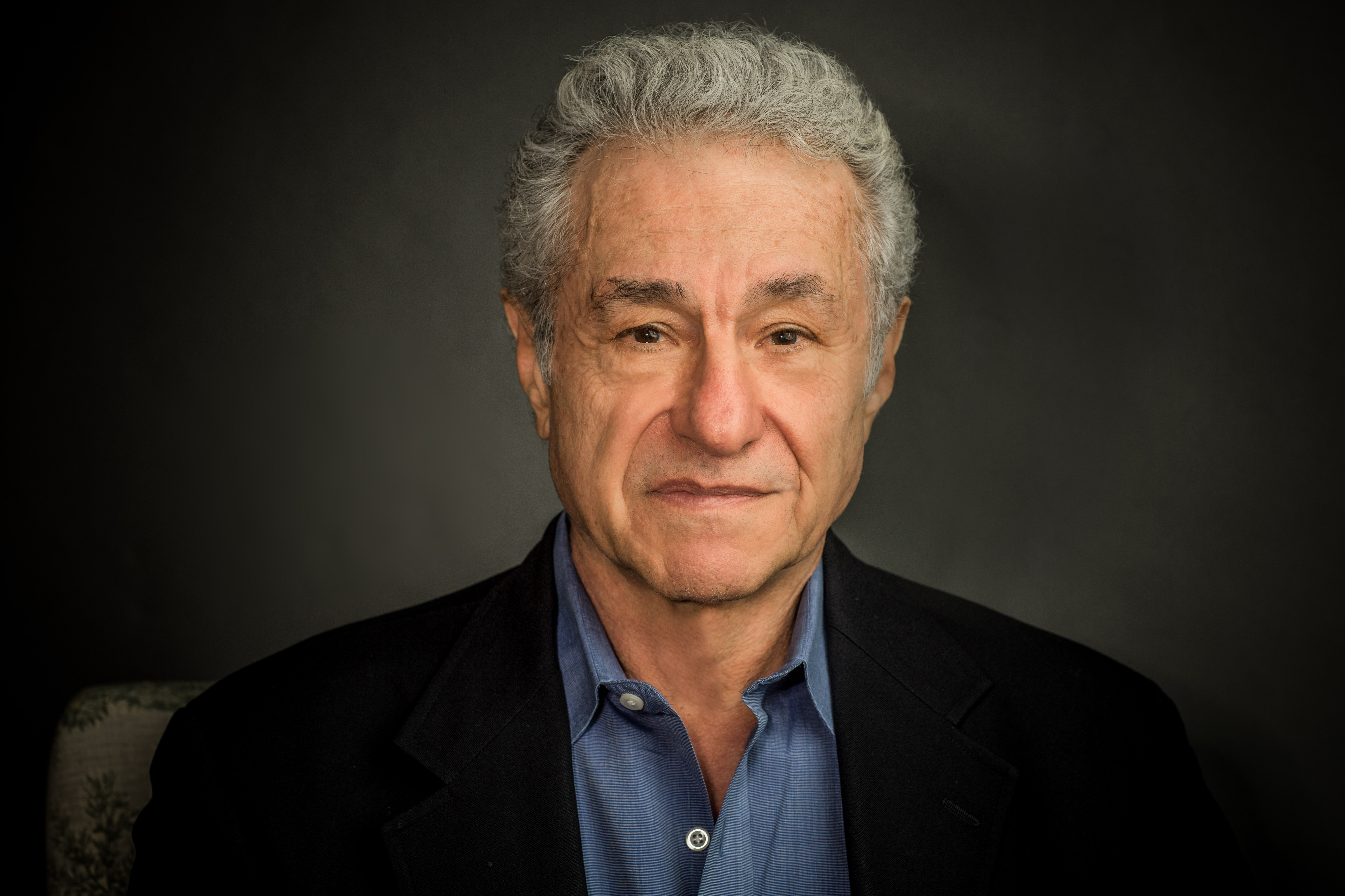 Photograph of political economist and historian Gar Alperovitz